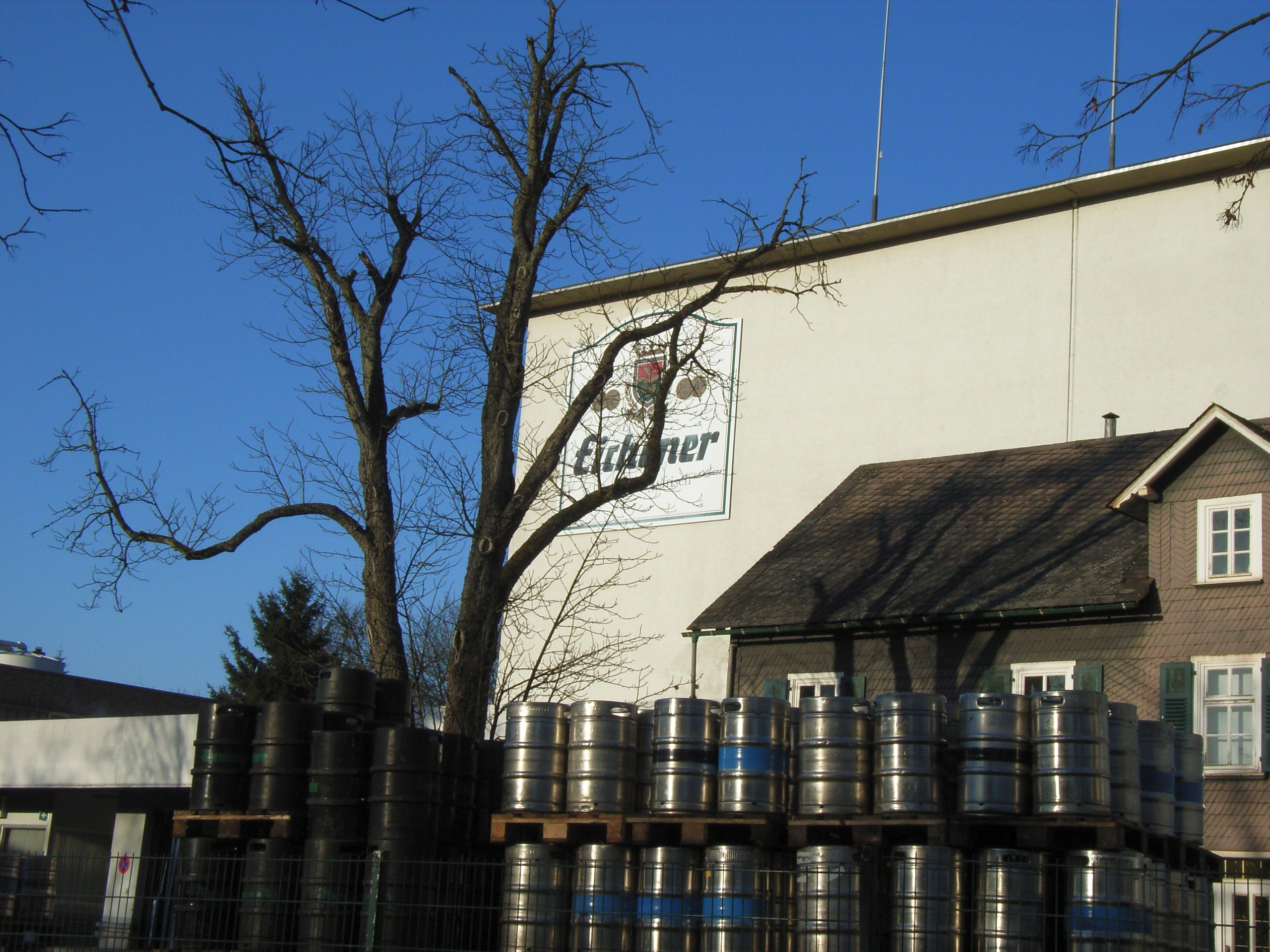 This photo shows the "Eichener Brauerei" main building.